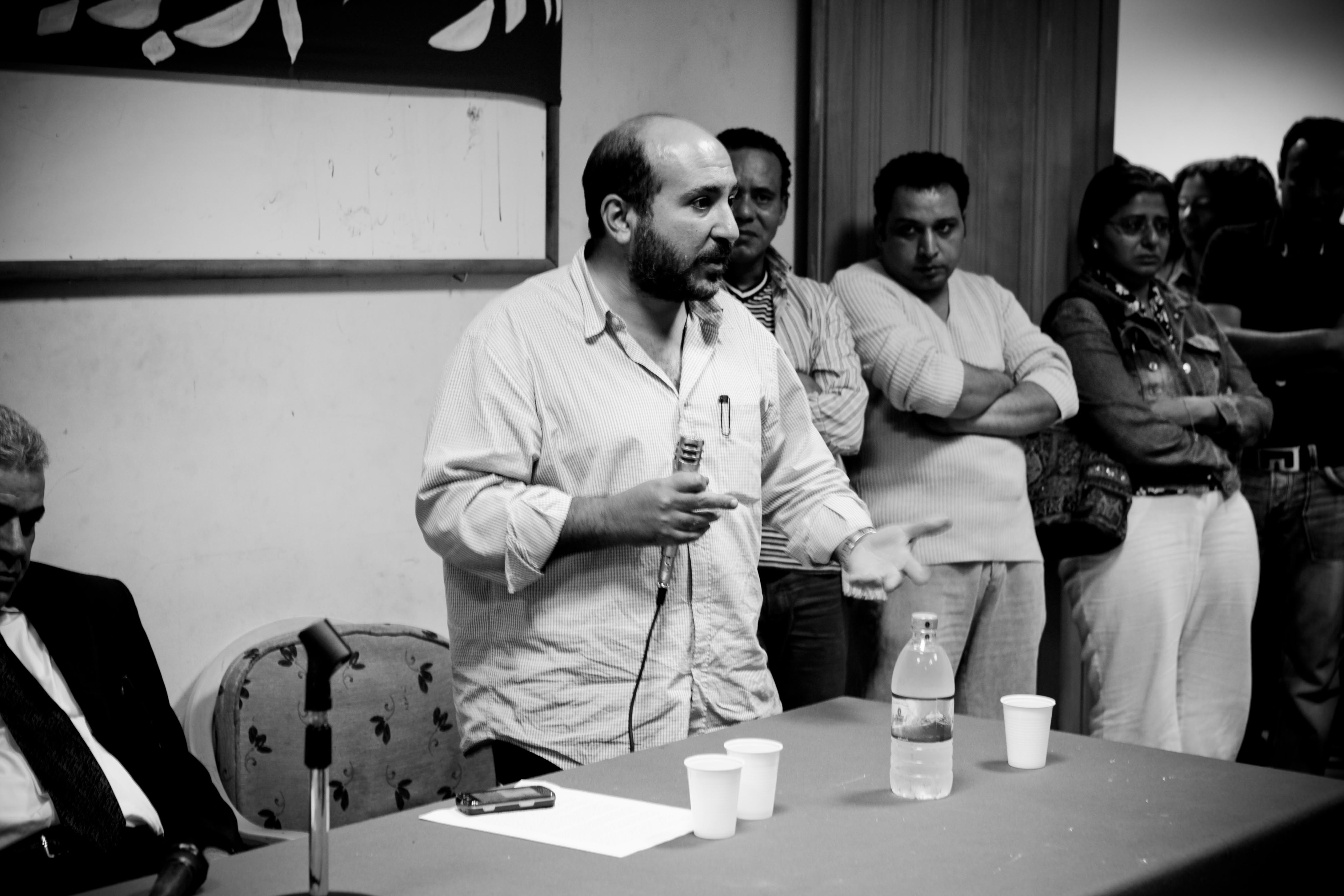 Comrade Sameh Naguib mourning Chris Harman's death, Cairo's Press Syndicate...